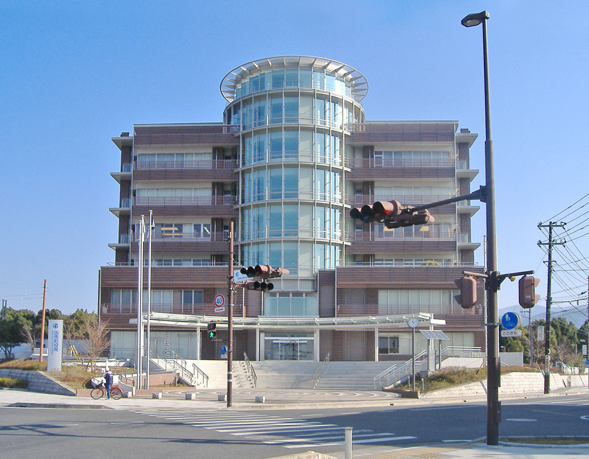 Kannami town hall